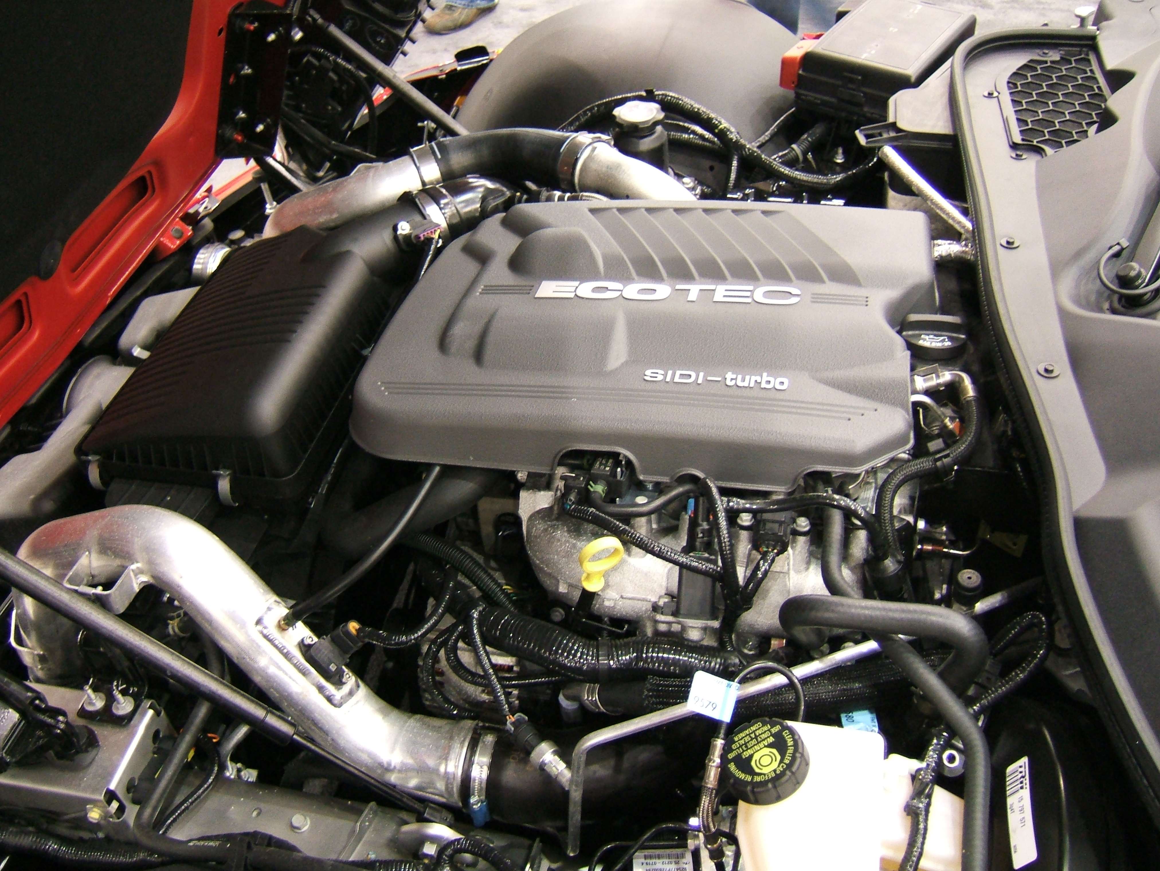 Pontiac Solstice GXP engine; taken at the Michigan International Auto Show in Grand Rapids, Michigan. 2.0 L Turbocharged Ecotec LNF